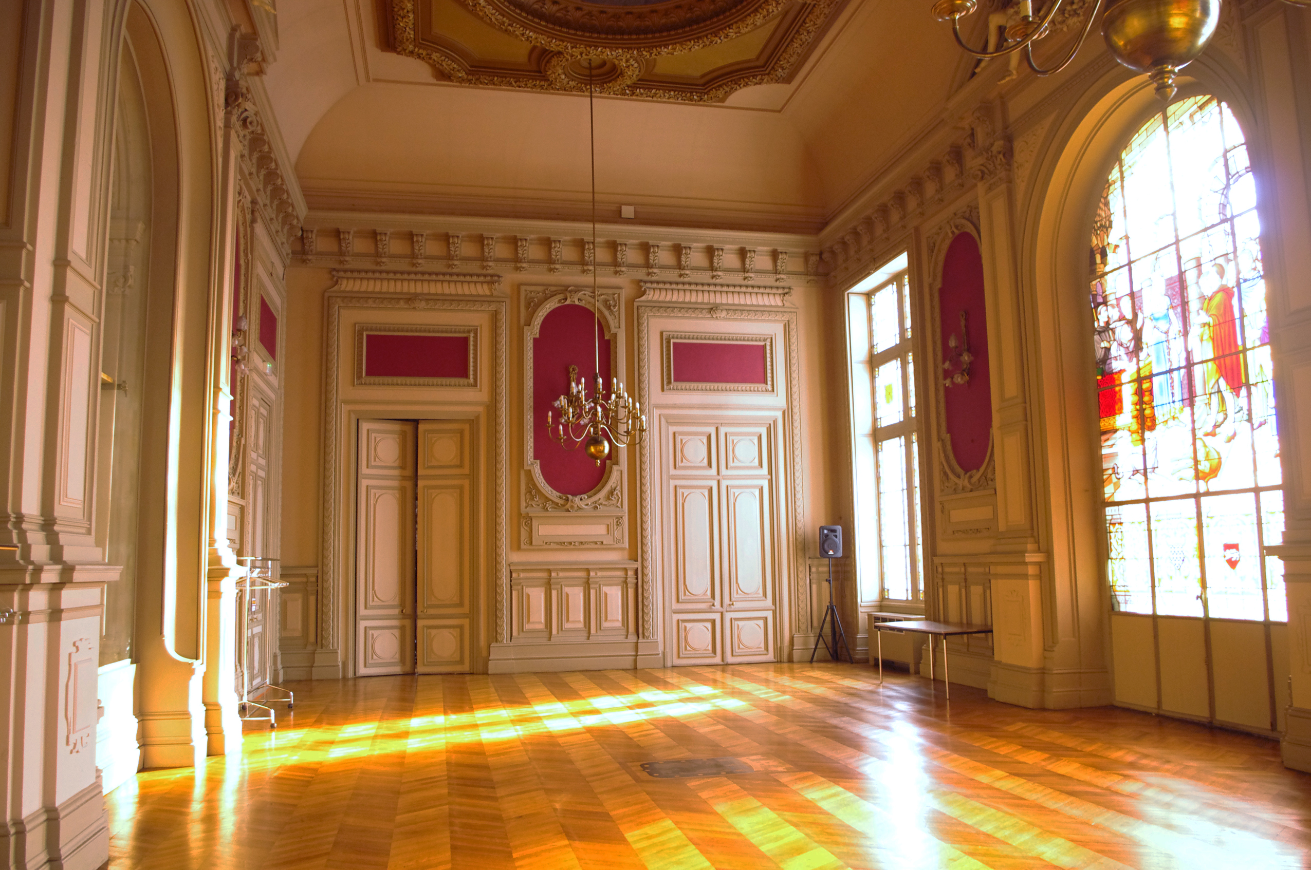 Reception room in the city hall of Poitiers, France (19th century).